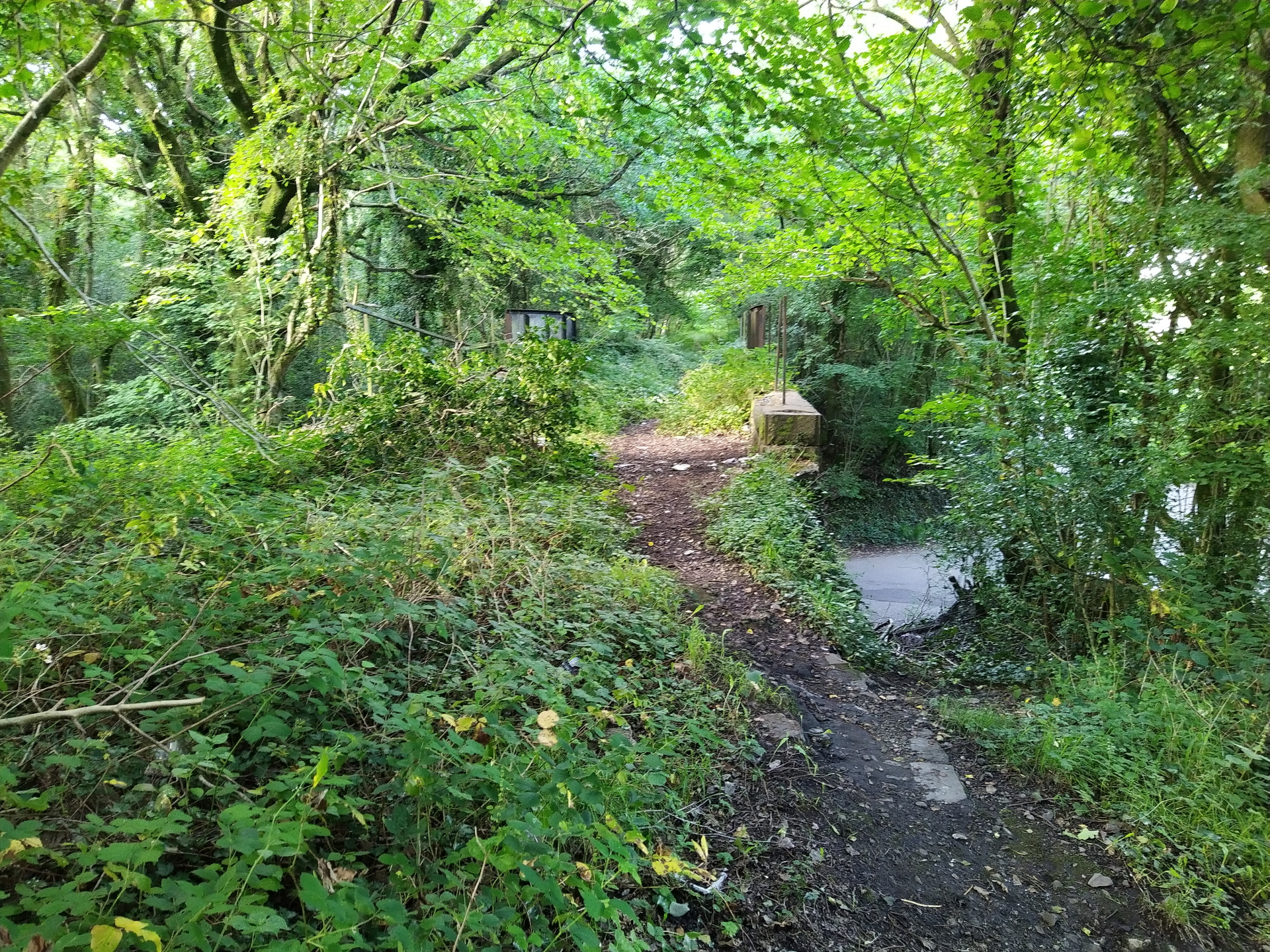 This is the site of Beddau Halt - a railway halt on the Llantrisant and Taff Vale Railway. This picture is approximately where the halt would have been situatied. It is looking east towards the still existing railway bridge.